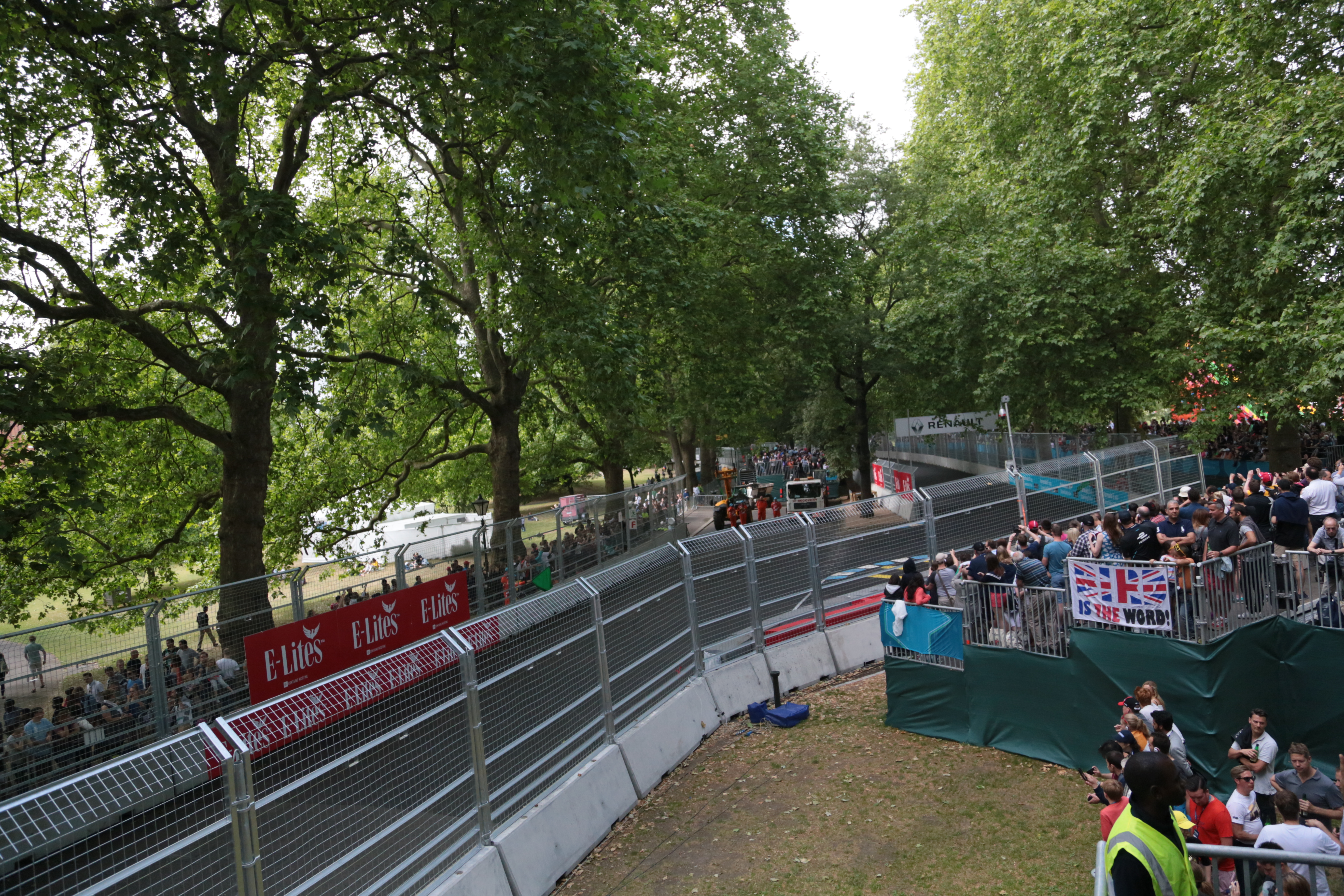 FIA Formula E Championship final London